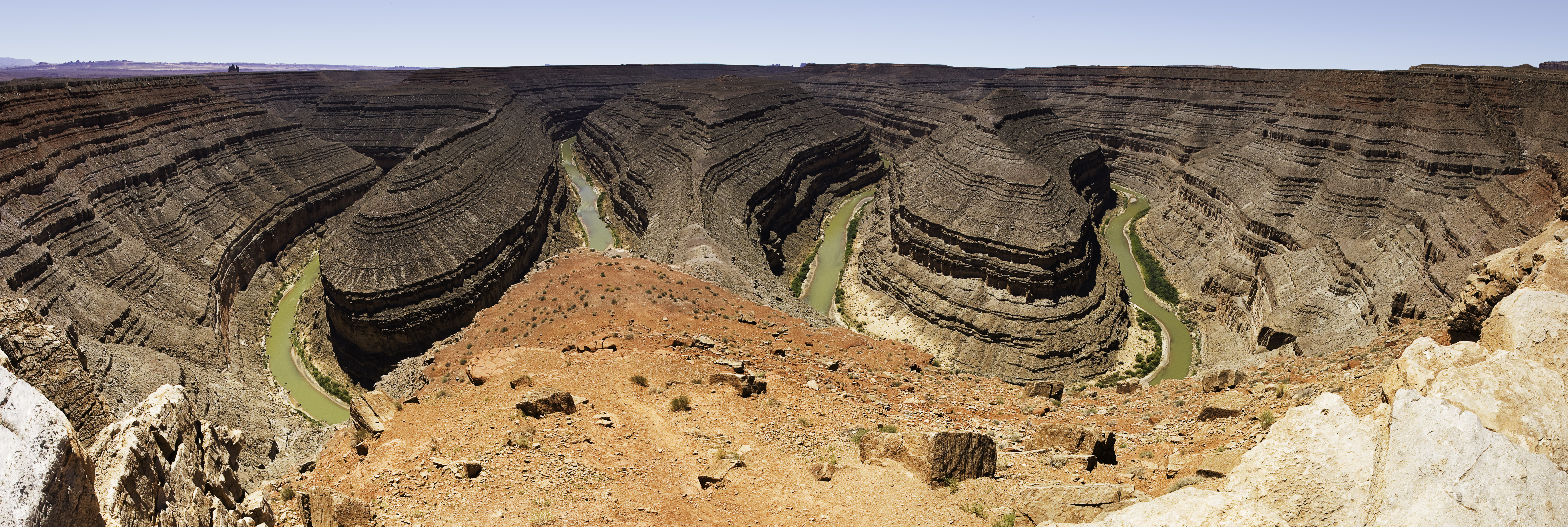 Panoramic of the the San Juan River canyons in Goosenecks State Park. Located in southeastern Utah (U.S.). The river carved the entrenched meanders into the sandstone formations.